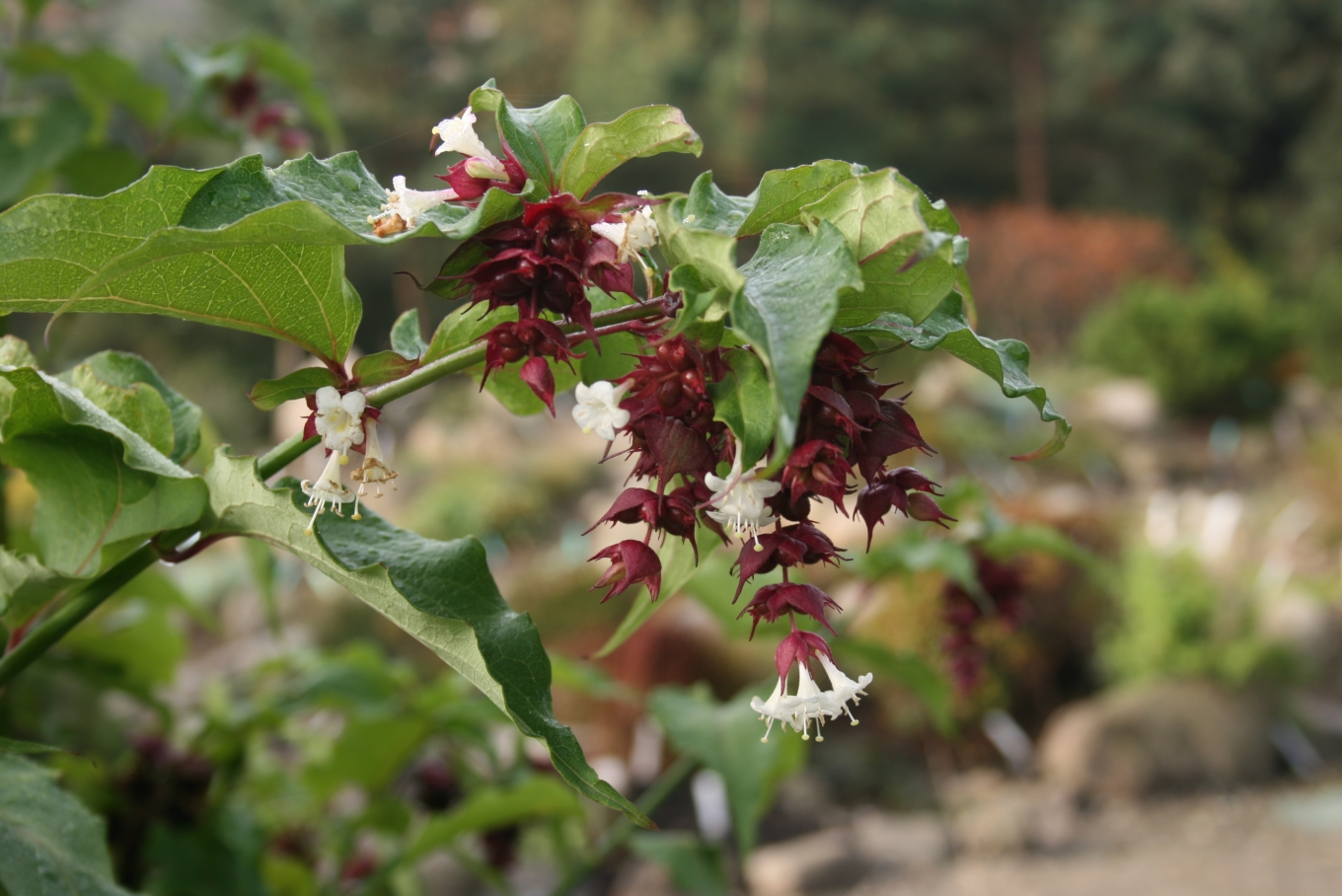 Leycesteria formosa: Flowers